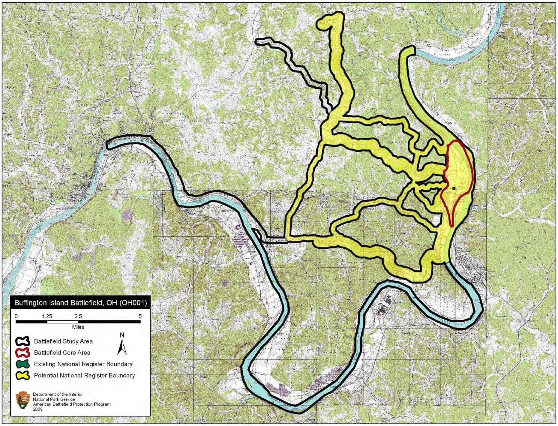 Map of battlefield core and study areas. The Study Area encompasses the route taken by Morgan’s raiders as they attempted to reach and cross the ford at Buffington Island, and the multiple routes used by the Federal troops in pursuit. The Ohio River itself has been included because a Federal naval flotilla under the command of Lieutenant Commander LeRoy Fitch was patrolling the river looking for Morgan and guarding the various crossing points, including the ford at Buffington Island.